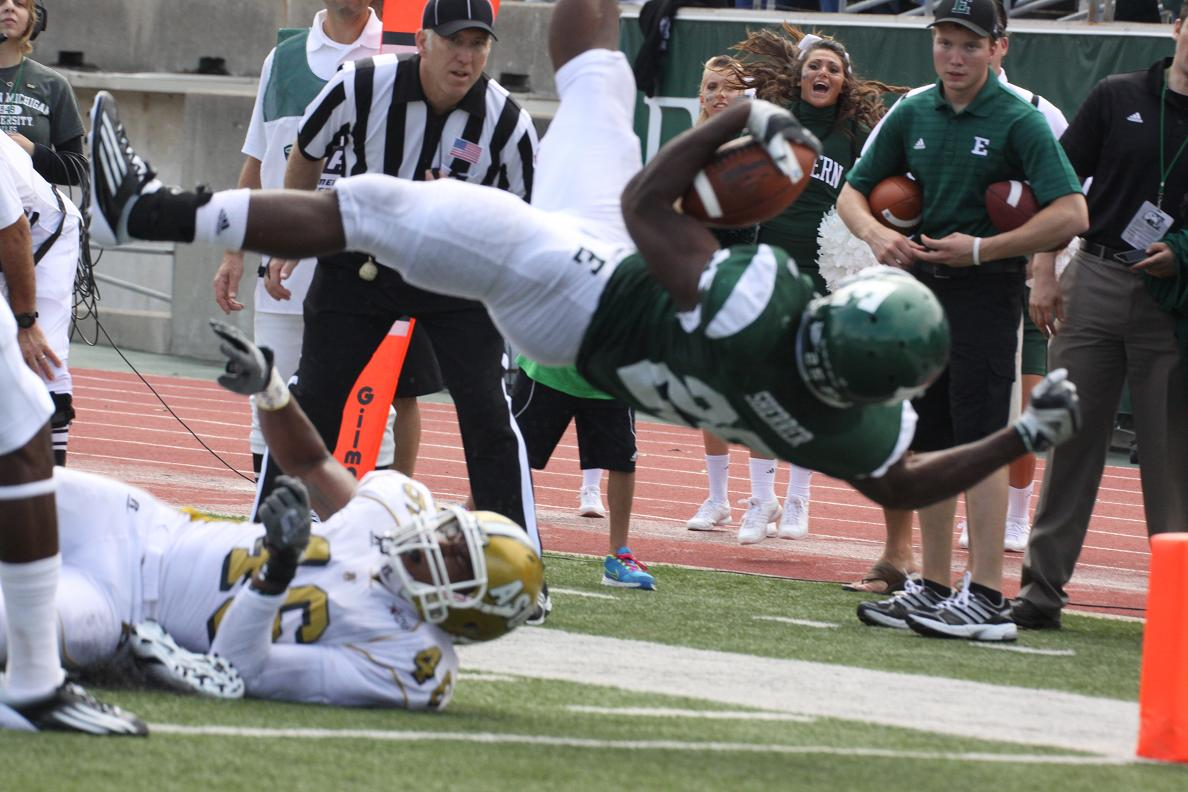 Running back Dominique Sherrer scored a leaping touchdown for EMU against Alabama State on September 10, 2011.